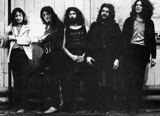 Supertramp